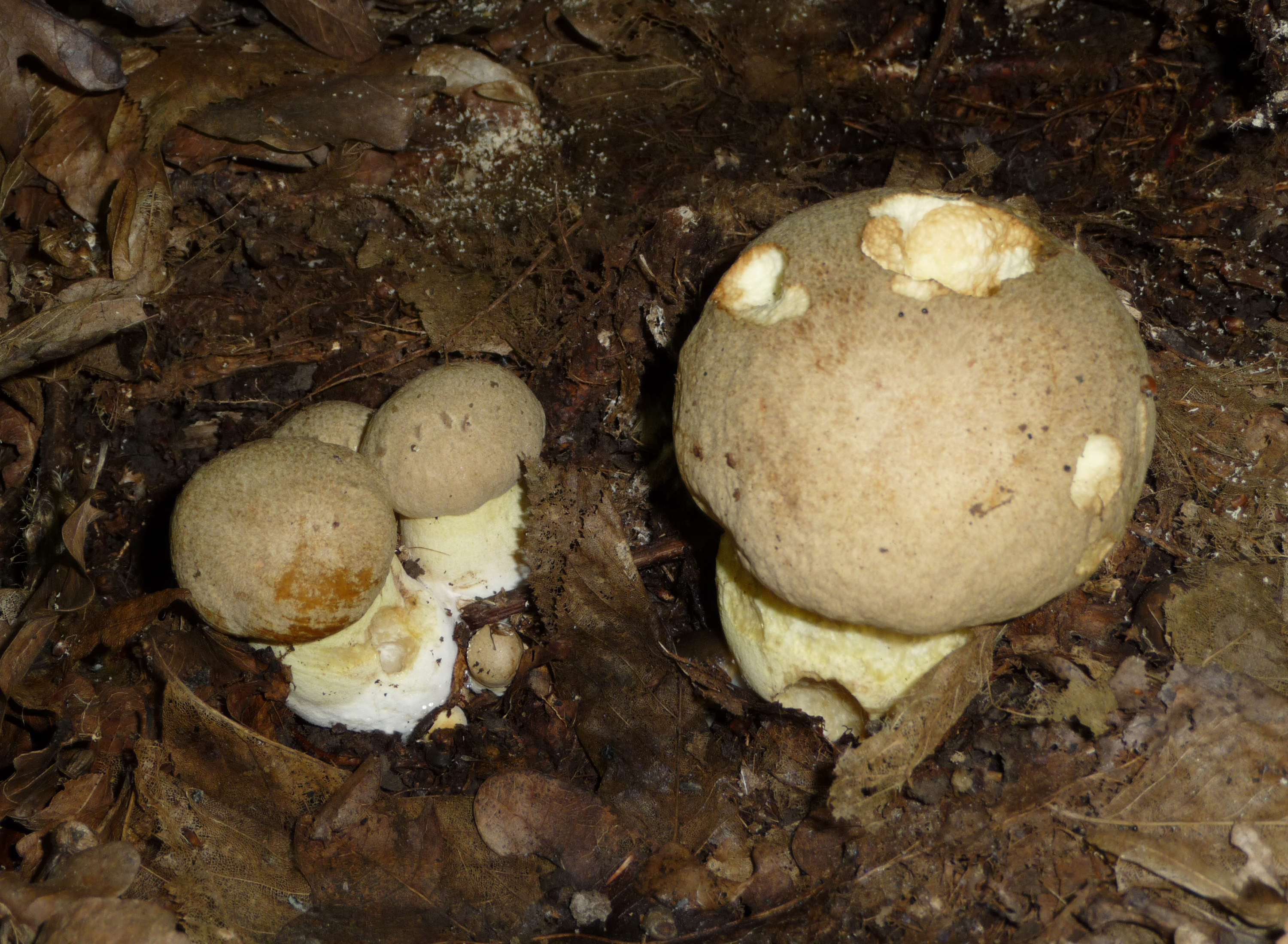 Iodine bolete (Boletus impolitus)